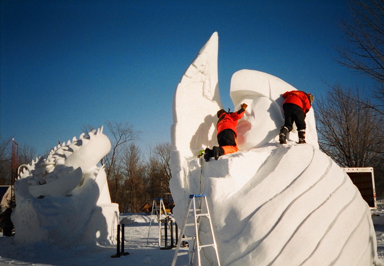 Sculpting a huge block of snow in the Jacques Cartier park in Gatineau during Winterlude 2005